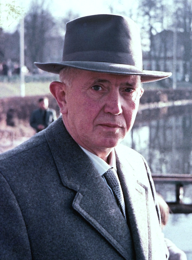 Wilhelm Maßmann (* 6. Juli 1895 in Preetz; † 17. Dezember 1974 in Kiel) Chess composer and collector of chess miniatures